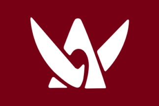 Flag of Wakasa Tottori